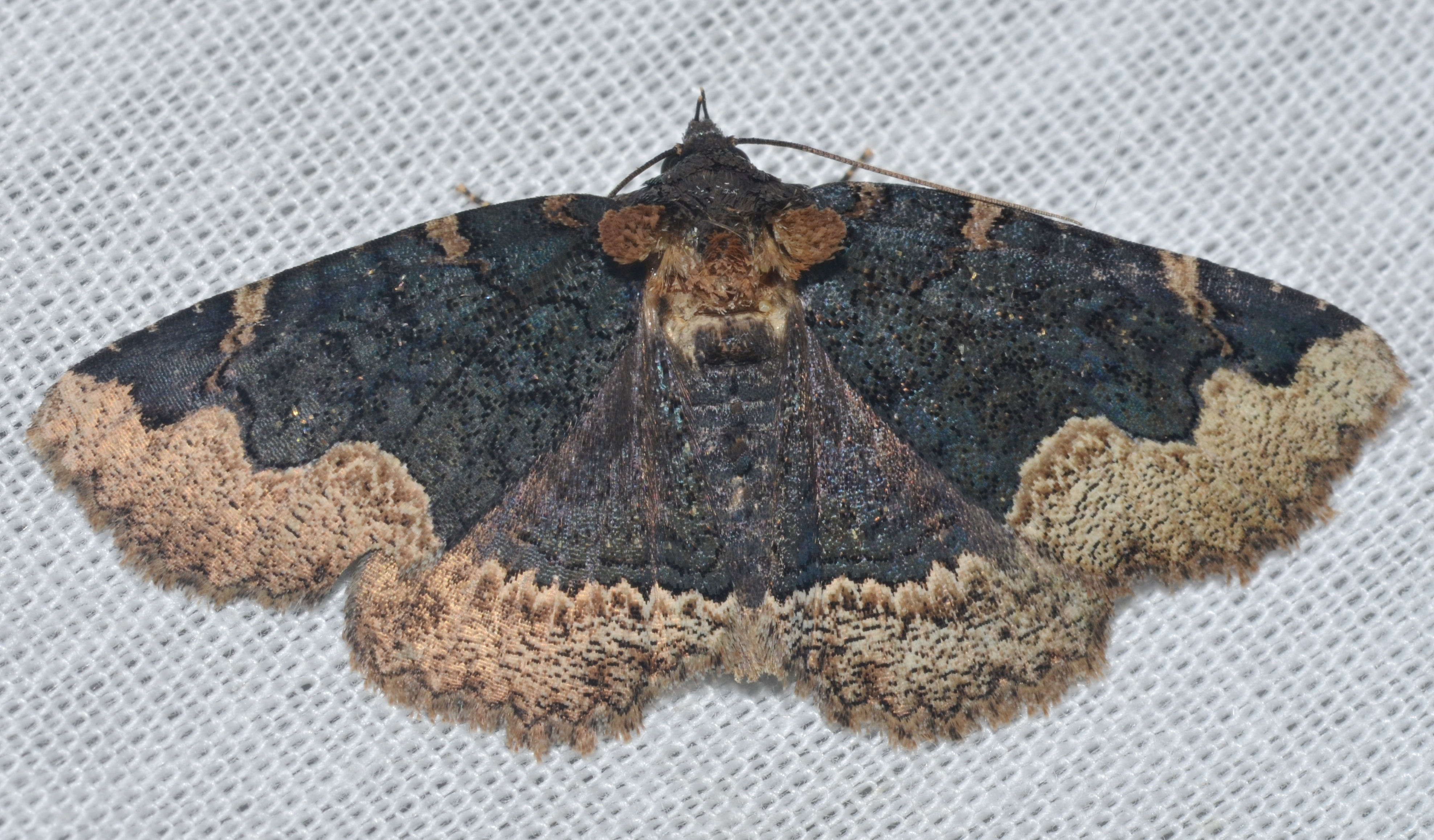 Cuivre River State Park 7/18/15